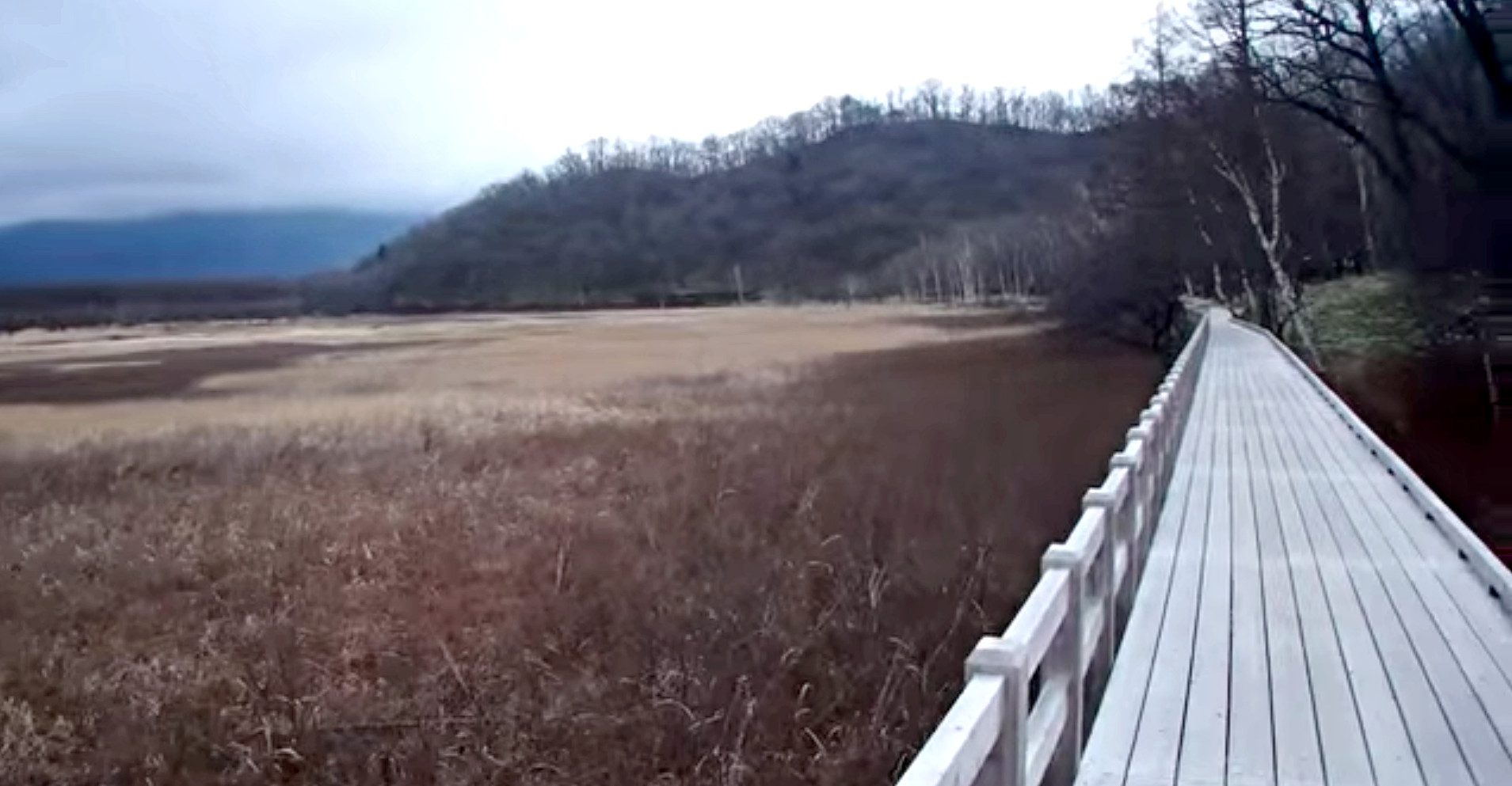 View of Odashirogahara in the Nikko mountain range in Tochigi Prefecture, Japan